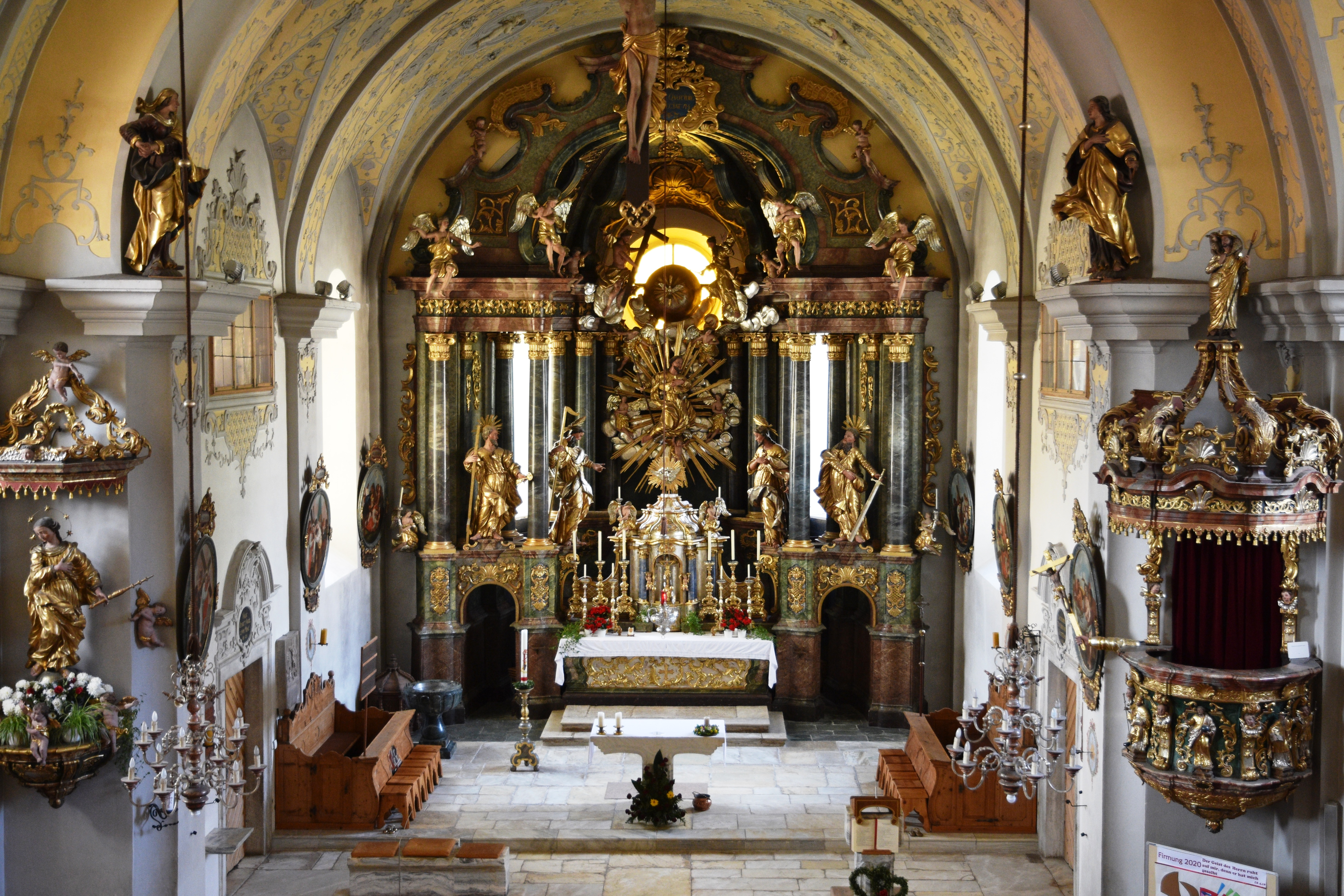 Church Dekanatspfarrkirche Tamsweg Interior